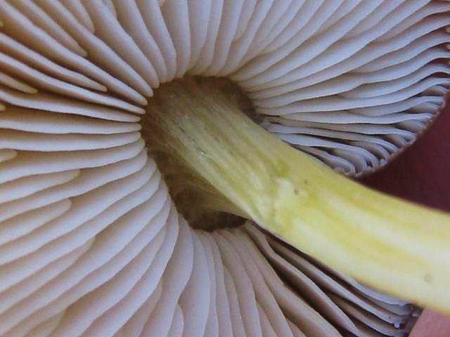 Pluteus romellii